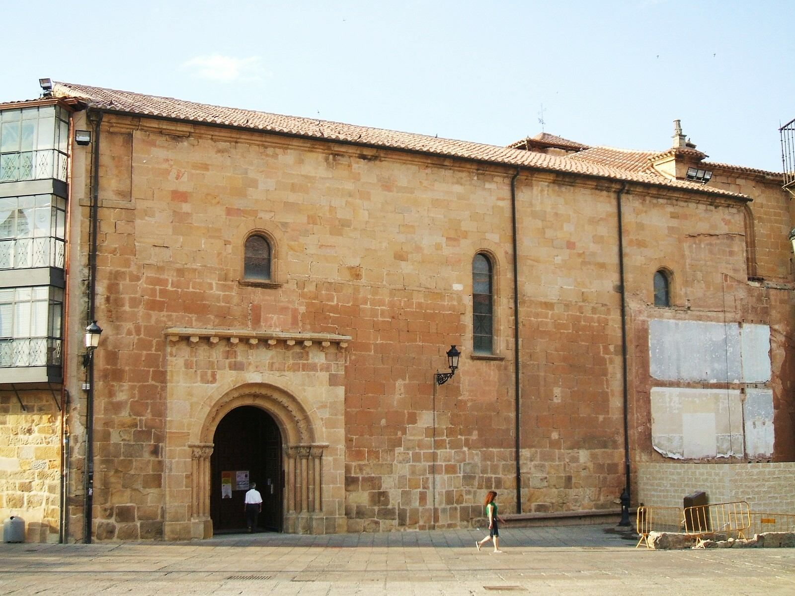 Iglesia de Santa María la Mayor, Soria, Castilla y León, España